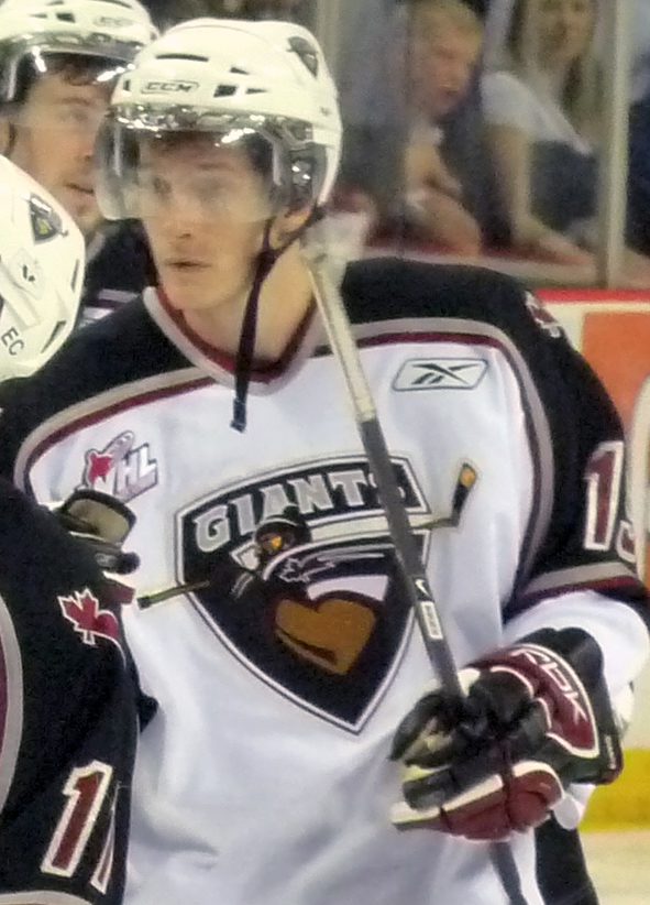 Vancouver Giants forward James Wright in game seven of the secon round of the 2009 WHL playoffs against the Spokane Chiefs.